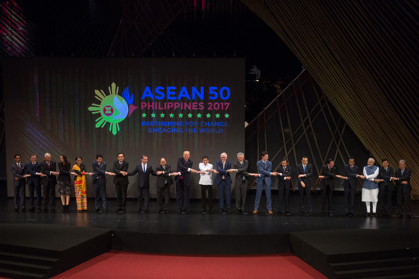 President Donald J. Trump visits the Philippines | November 13, 2017 (Official White House Photo by Shealah Craighead)